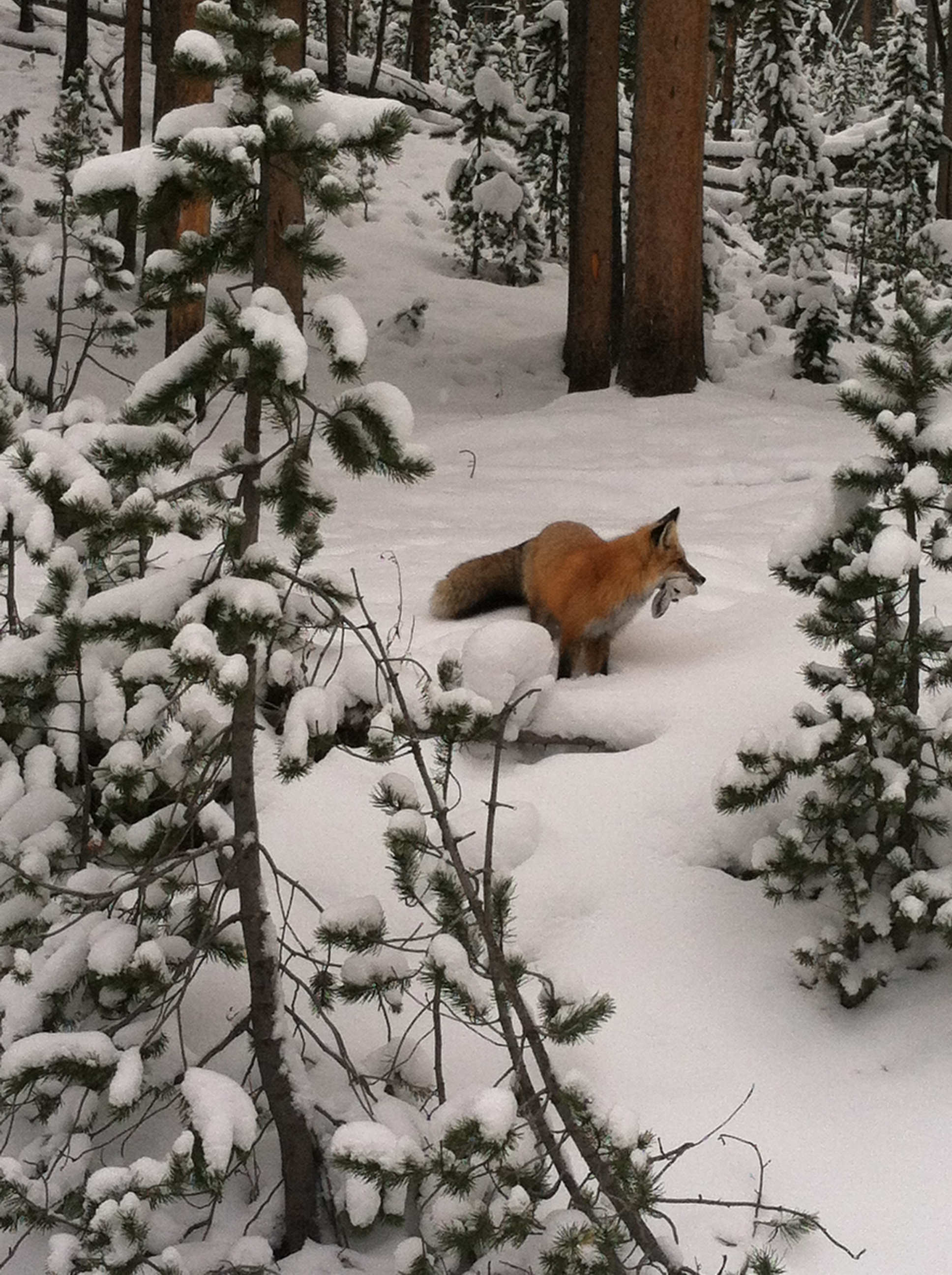 Fox with head of a snowshoe hare in mouth; Dan Smith; November 6, 2013; Catalog #19281d